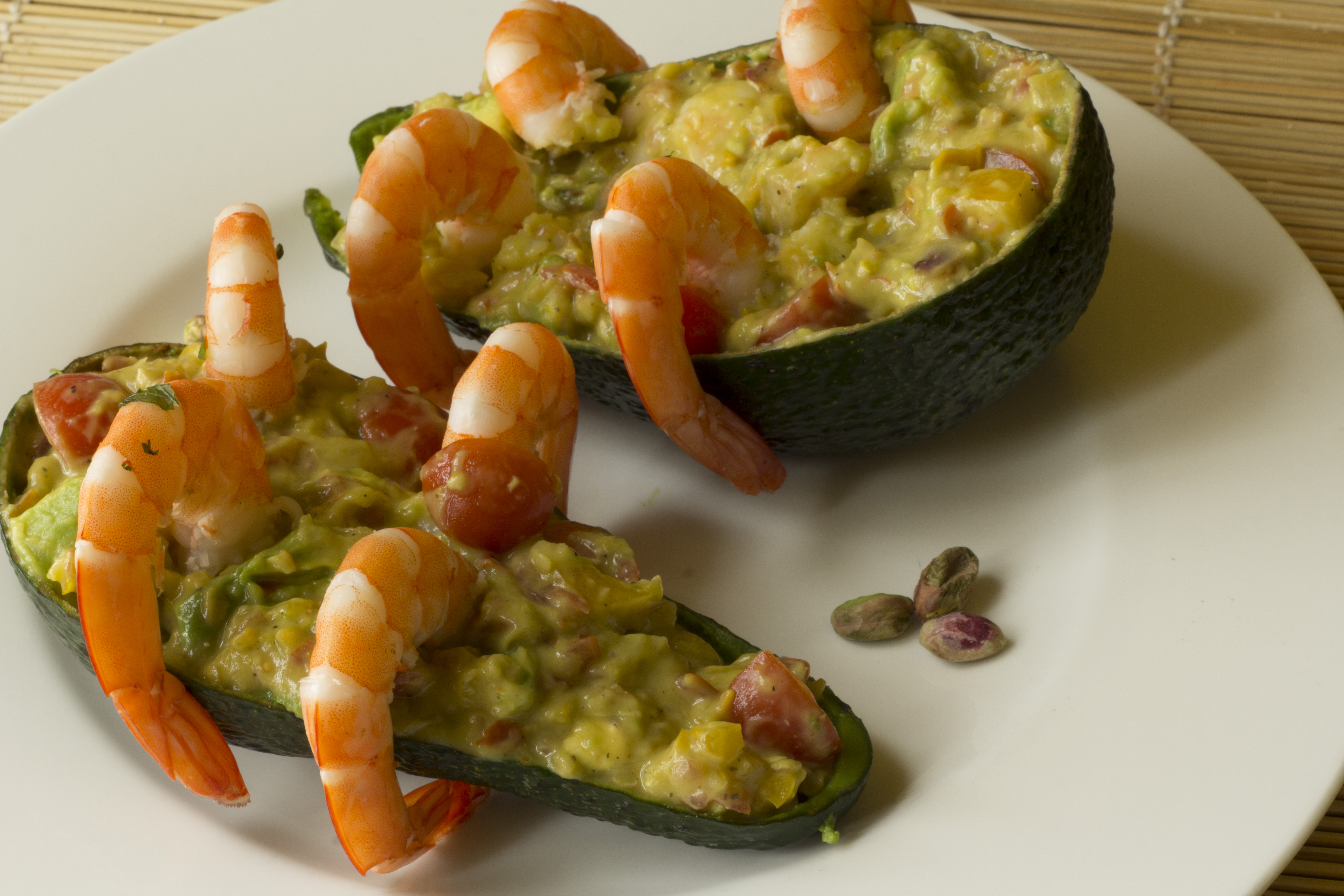 Shrimp and Avocado Salad (Recipe in italian: )